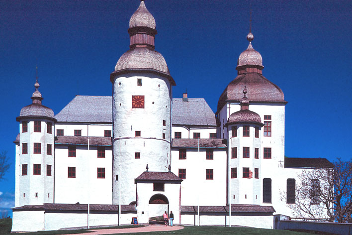 Läckö slott in Sweden.